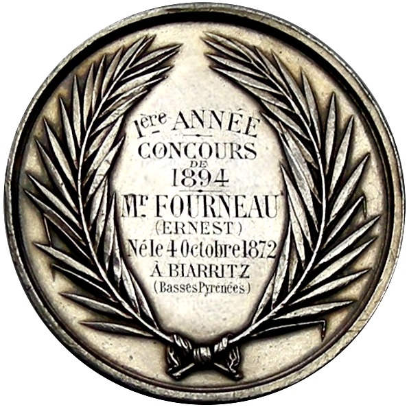 Medal of the École de pharmacie de Paris, award Ernest Fourneau, 1894.